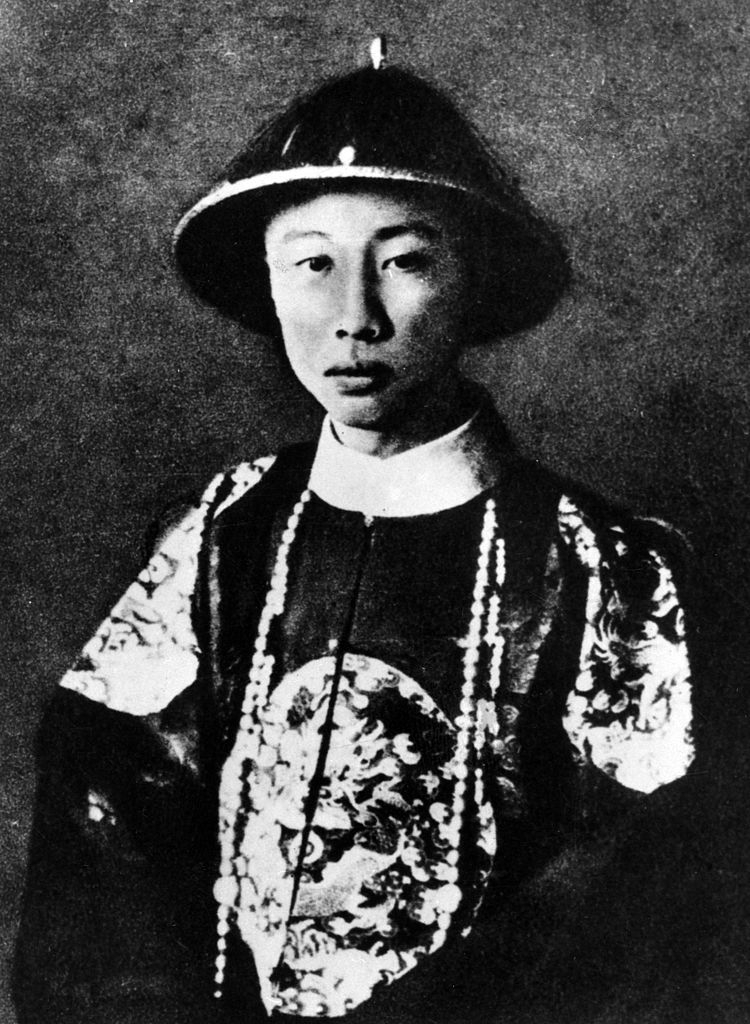 (broken while has an almost identical image)